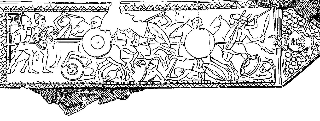 Hellenistic bronze plaque, discovered during the German archaeological campaigns in the Acropolis of Pergamum at the end of the 19th century. The piece, which was lost and of which there remained only a pen-and-ink illustration by Alexander Conze (1913), likely depicts the Battle of Magnesia in 190 BC. The Roman infantry, the Seleucid phalanx and the Attalid cavalry are shown.